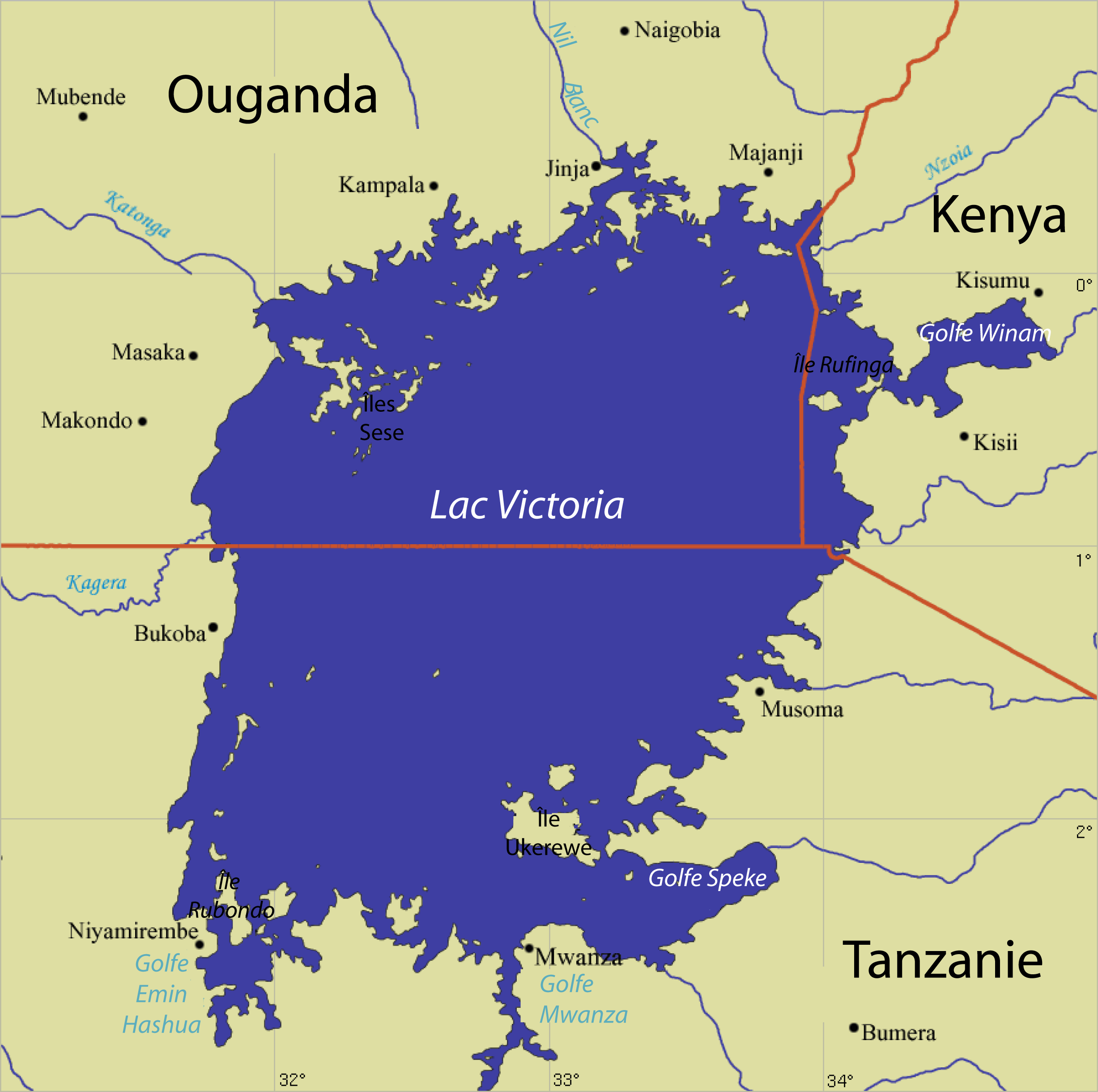 Map of Lake Victoria -Africa in French language